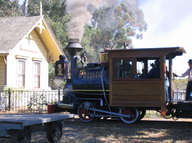 Porter locomotive of the Antelope & Western Railroad at the SPCRR open day